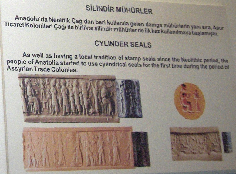 Cuneiform tablets and cylinder seals, found at Kültepe, Period of the Assyrian Trade Colonies; 1950-1750 BC; Museum of Anatolian Civilizations, Ankara, Turkey. Shown: Cylinder seals, one Stamp seal, and impressions from most. The display "write-ups" are readable: the photo is High Res, Expandible, (for reading).